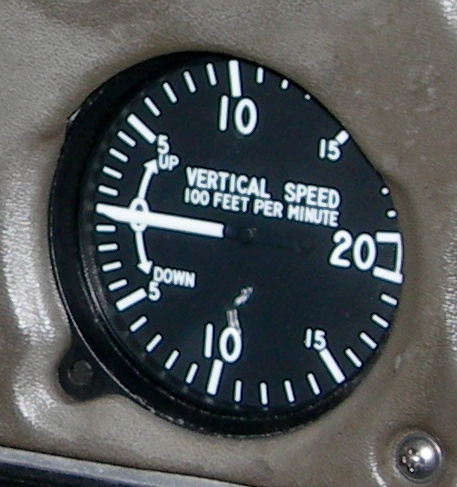 Aircraft VSI